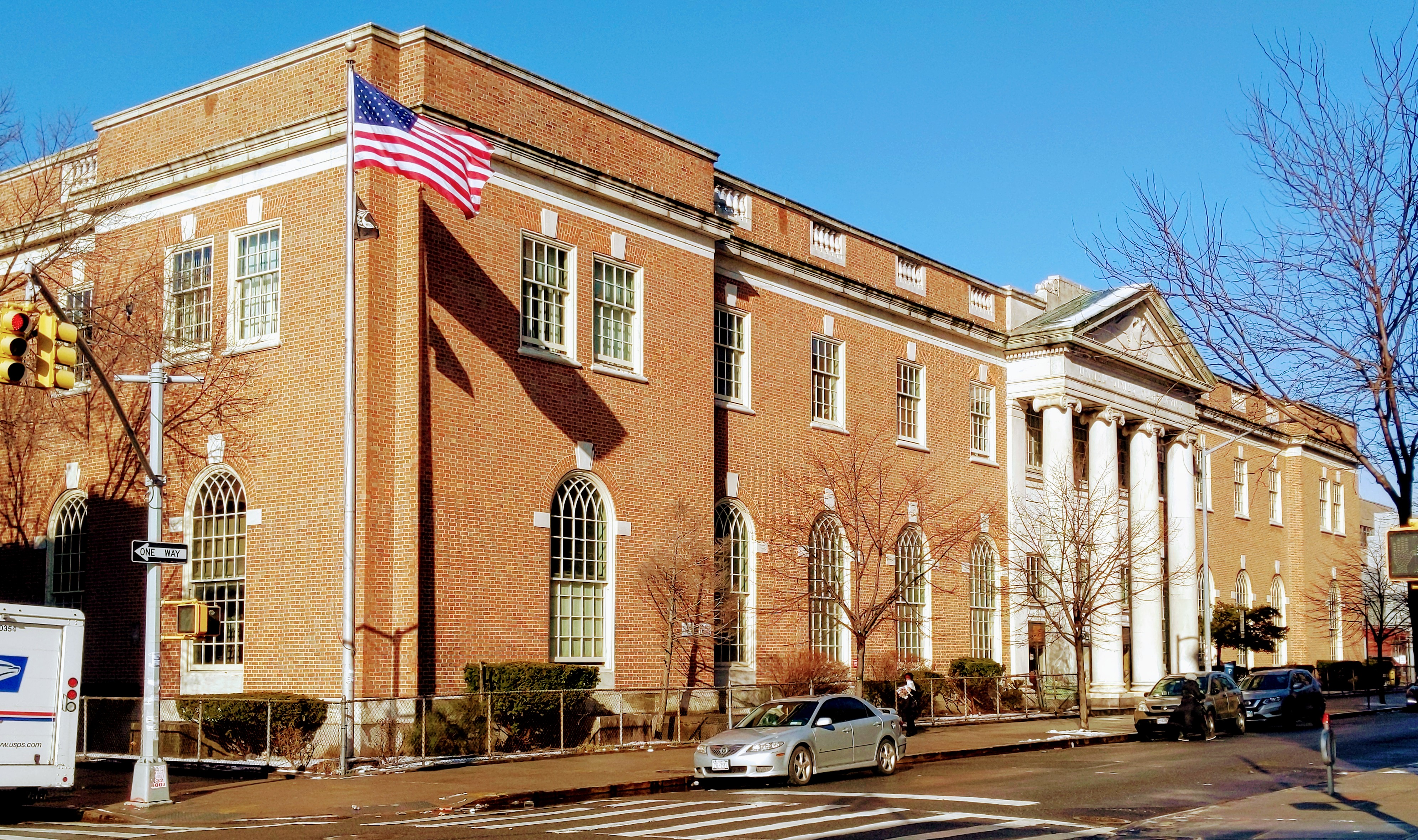 View N/W of frontage on 164th St, NRHP Listed USPO in Jamaica, Queens, NY